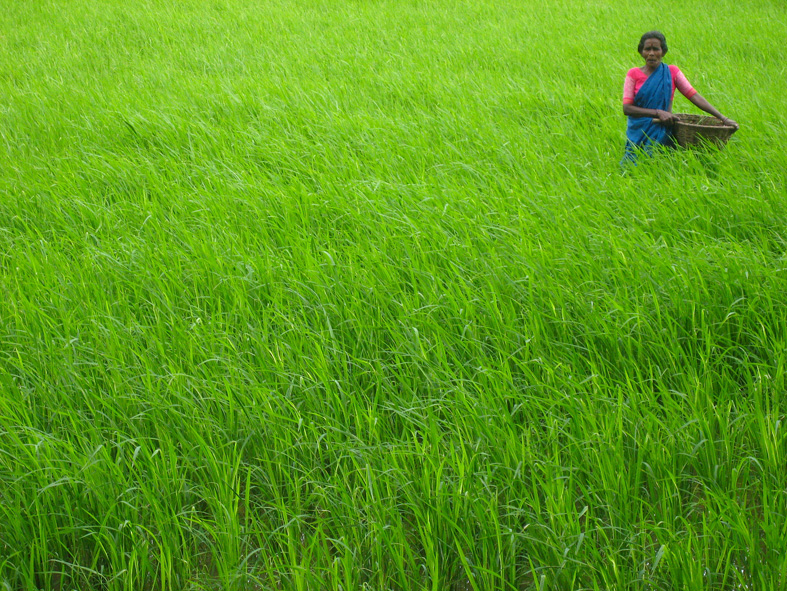 A paddy field and village life in southeastern India. Image from south of Puducherry.